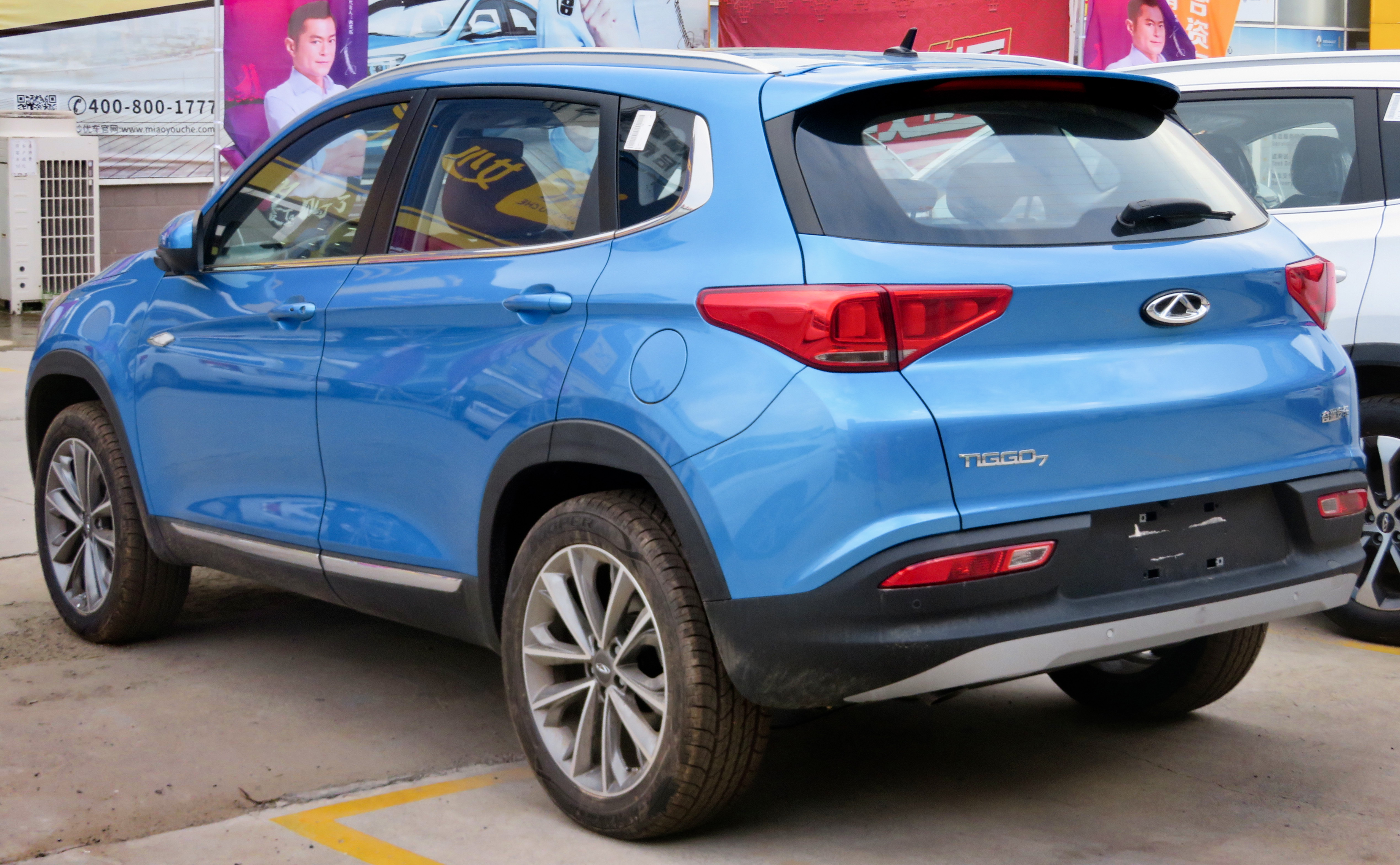 Photographed in Zhengzhou, Henan province, China